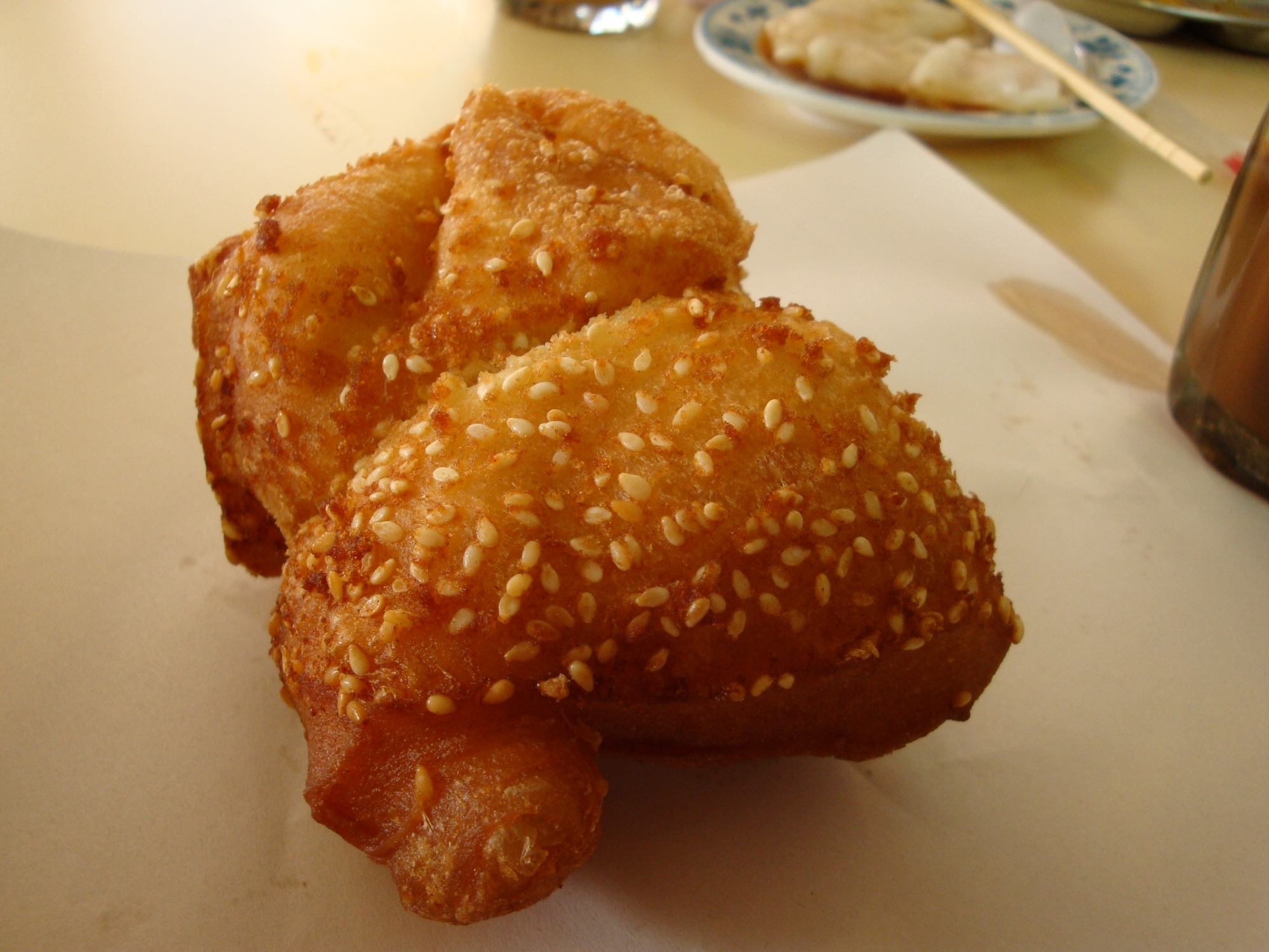 Behuejhi or shuangbaotai, fried chinese dough food